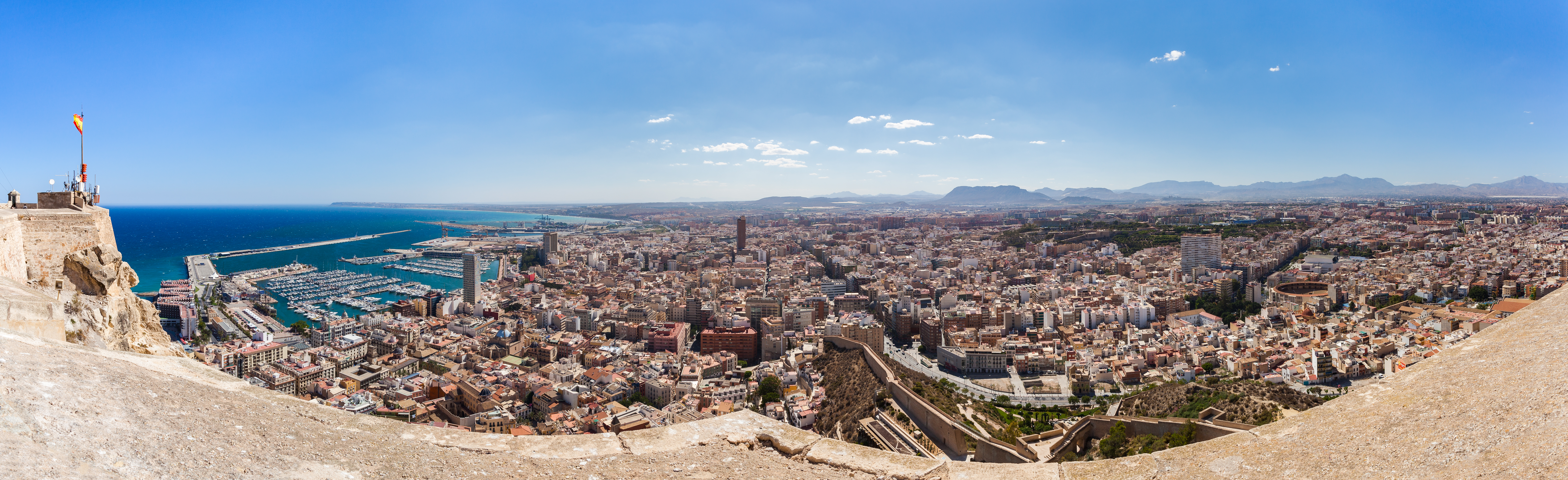 Panoramic view of the city of Alicante from the Santa Bárbara Castle, Spain. The city has a population of aprox. 330.000 and is a popular touristic destination as it's located in the coast of the Mediterranean Sea. The castle, located on 166 metres (545 ft)-high Mount Benacantil, dates from the 9th century.